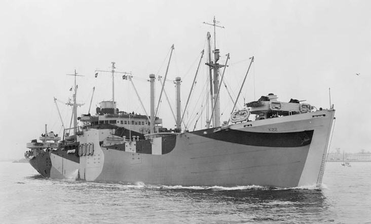 Photo of USS Fomalhaut (AK-22). USS Formalhaut was designated "AKA-5" as attack cargo ship, February 1943 to August 1944, when the designation was changed to cargo ship (AK-22).